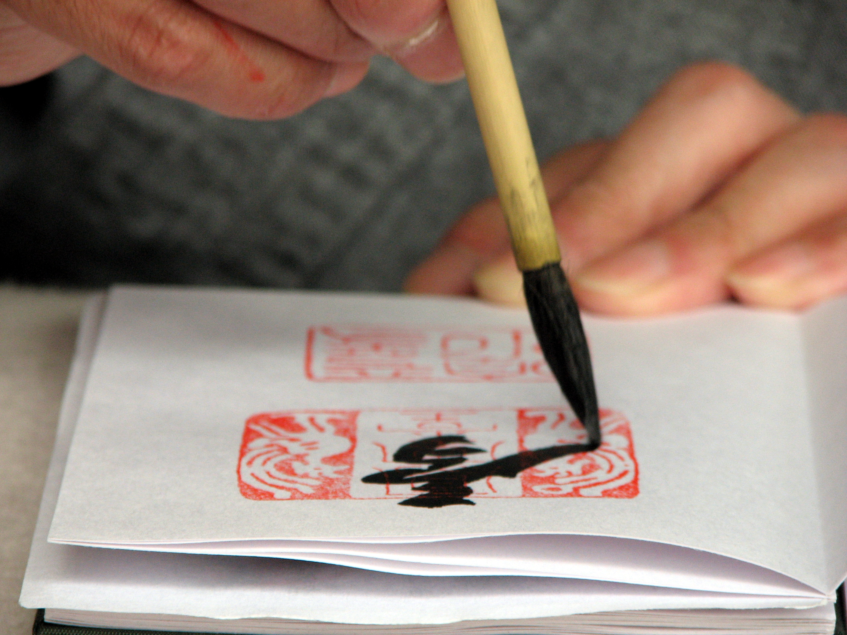 A monk signing a temple book at the Byodo-in